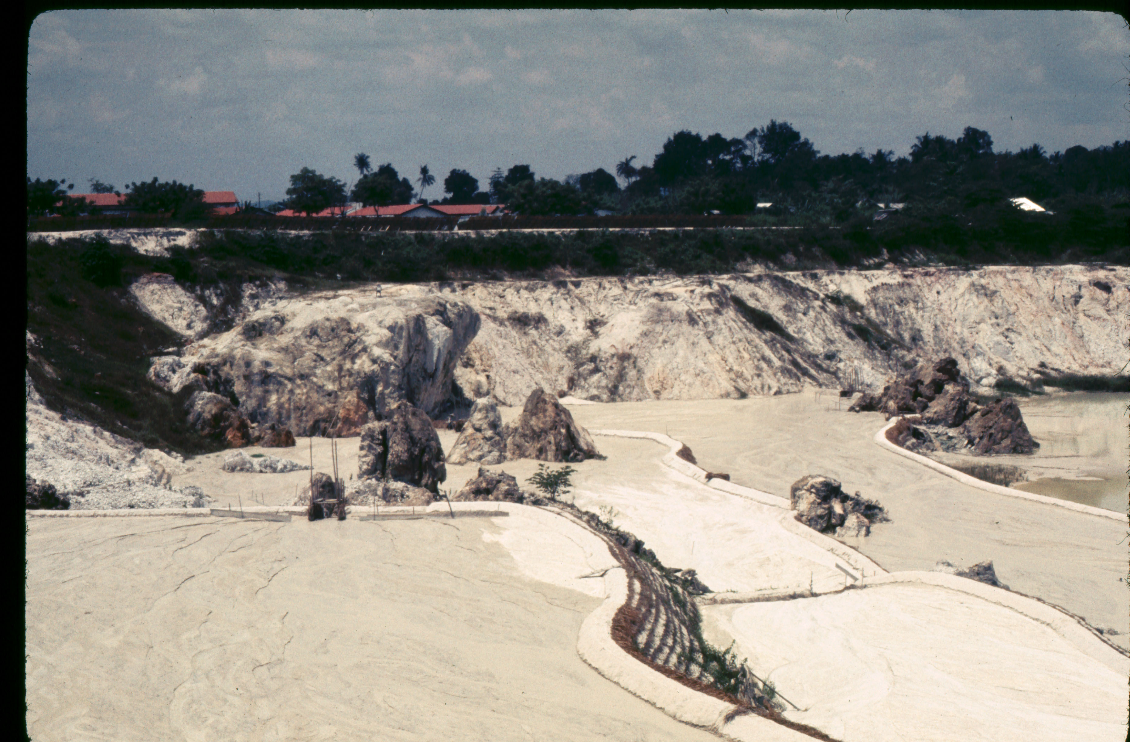 Open pit mining for tin; outside of Kuala Lumpur, Malaysia.